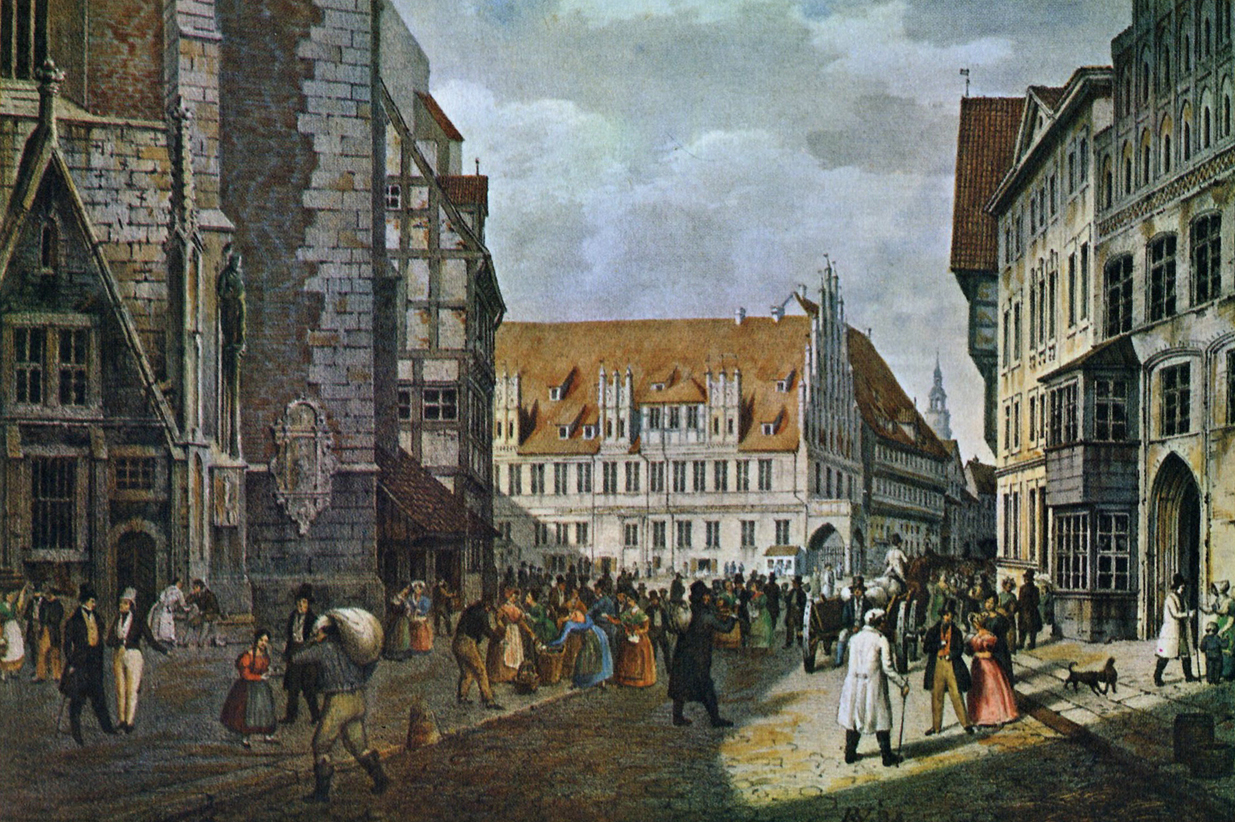 The Market 1834 in Hanover. Lithograph by Rudolf Wiegmann.